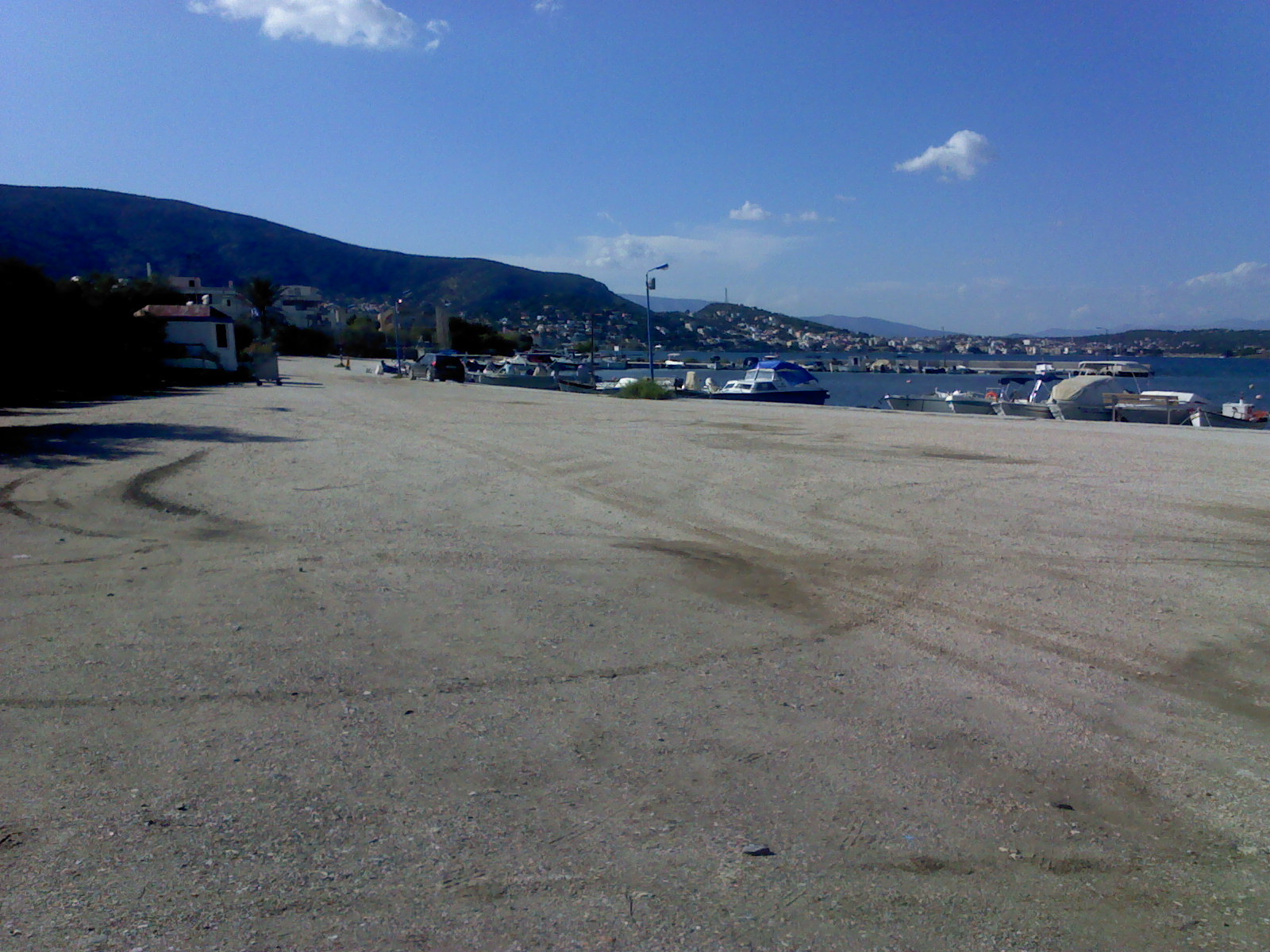 Naval Club Porto Rafti